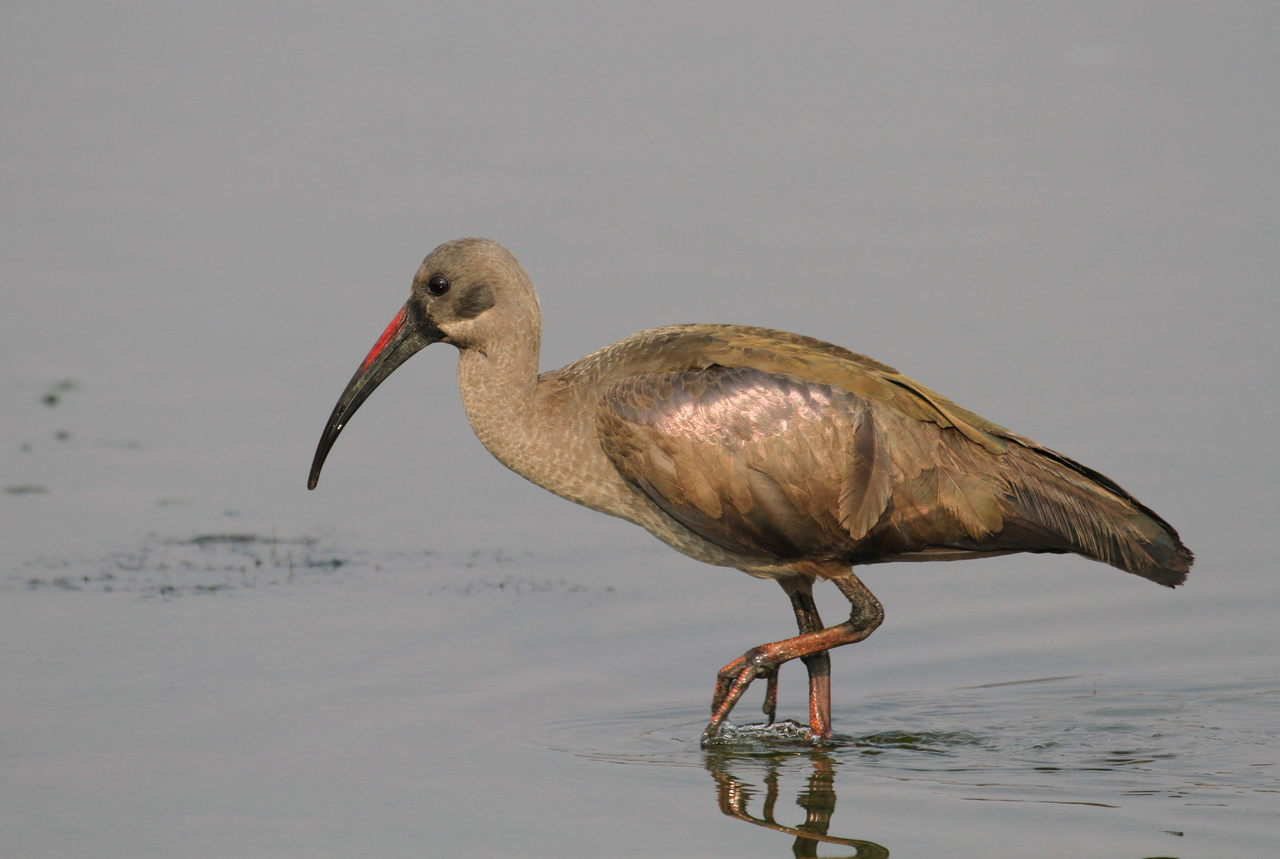 Hadada or Hadeda Ibis, Bostrychia hagedash at Borakalalo National Park, South Africa